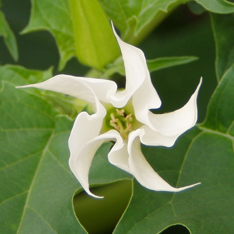 Mad Apple, or Moonflower, flower. Invasive in Portugal.